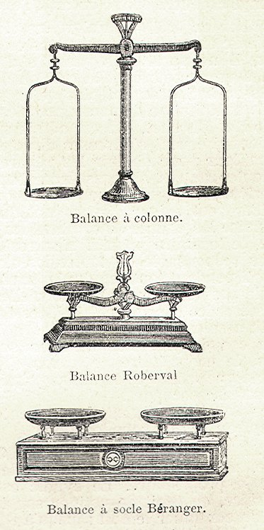 Three types of weighing scale.